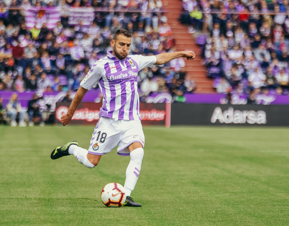 Real Valladolid - Valencia C. F., 38th fixture of the 2018-19 La Liga, May 18, 2019.